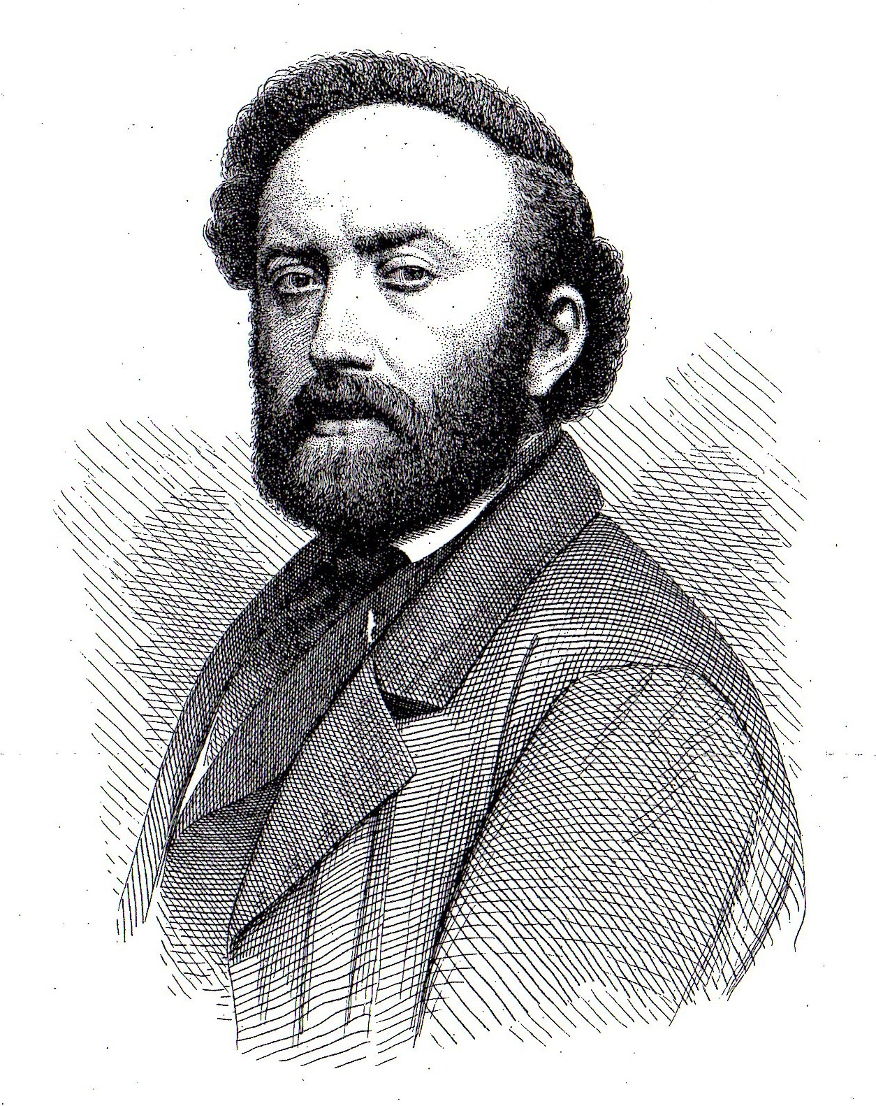 Portrait of Pieter Génard, city archivist of Antwerp, around 1863.